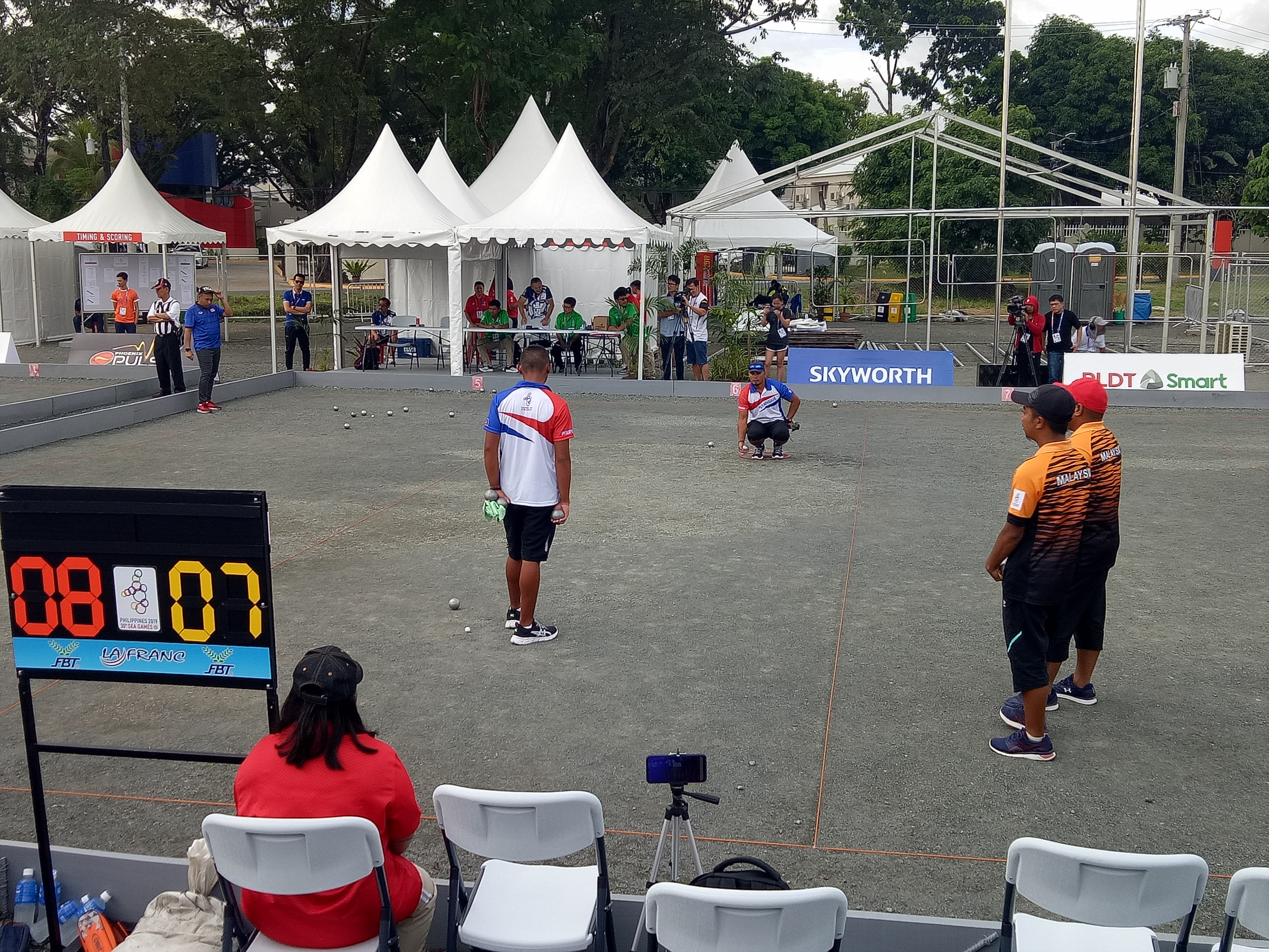 Petanque Men's doubles match: Philippines (white) vs Malaysia (orange) at the 2019 Southeast Asian Games at Clark Freeport, Mabalacat, Pampanga.